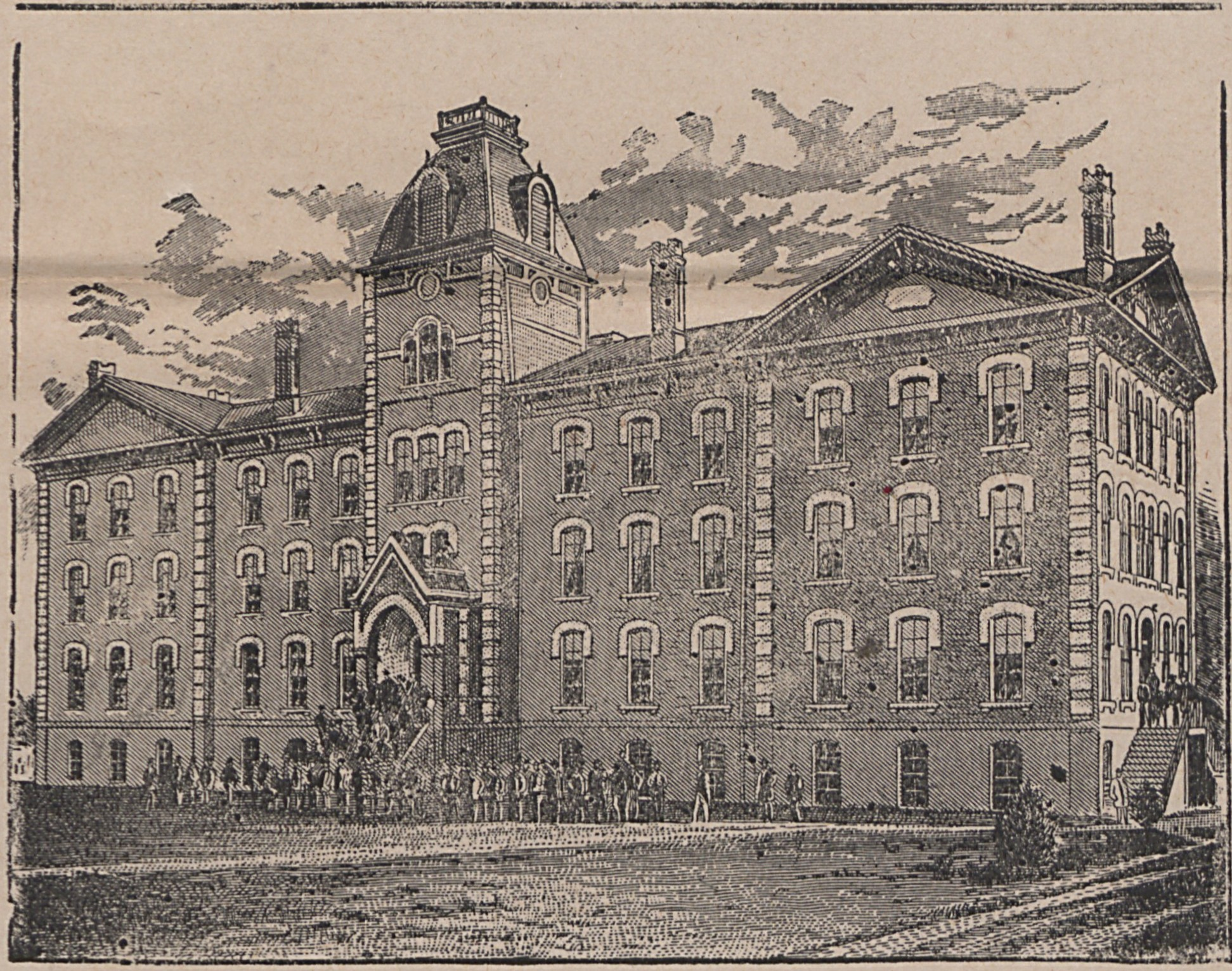 Flier advertising the faculty, learning environment, and costs of enrollment at Shaw University